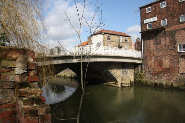 Old River Ancholme Bridge. Bridge near the Market Place, spanning the Old River Ancholme.